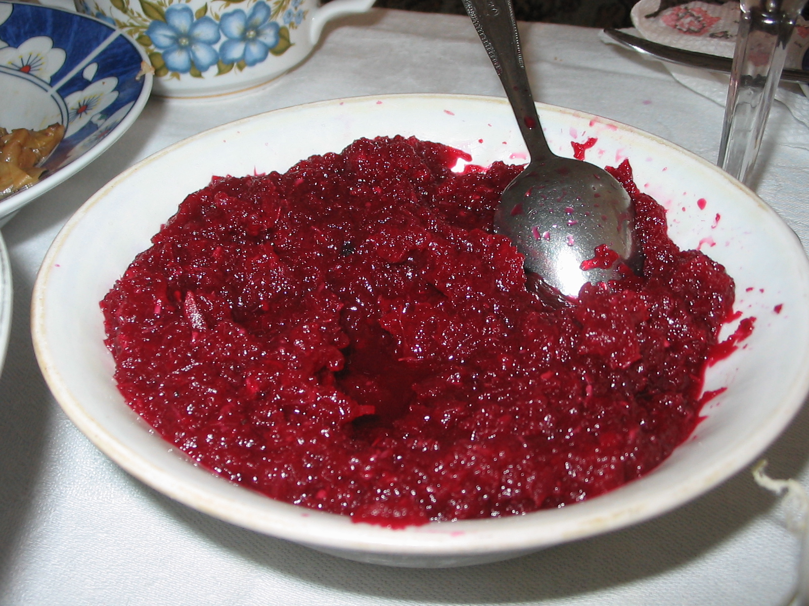 Tsvikly – ukrainian and polish spicy condiment made of redbeet and horseradish